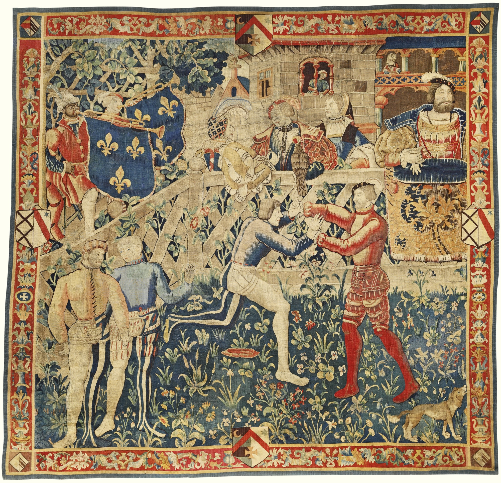 Renaissance tapestry of Le Camp du Drap d’Or, the meeting of Kings Henry VIII and François Ier, circa 1520, probably Tournai